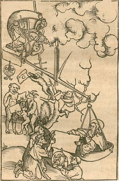 Illustration from Ein schöns tractetlein von dem Götlichen